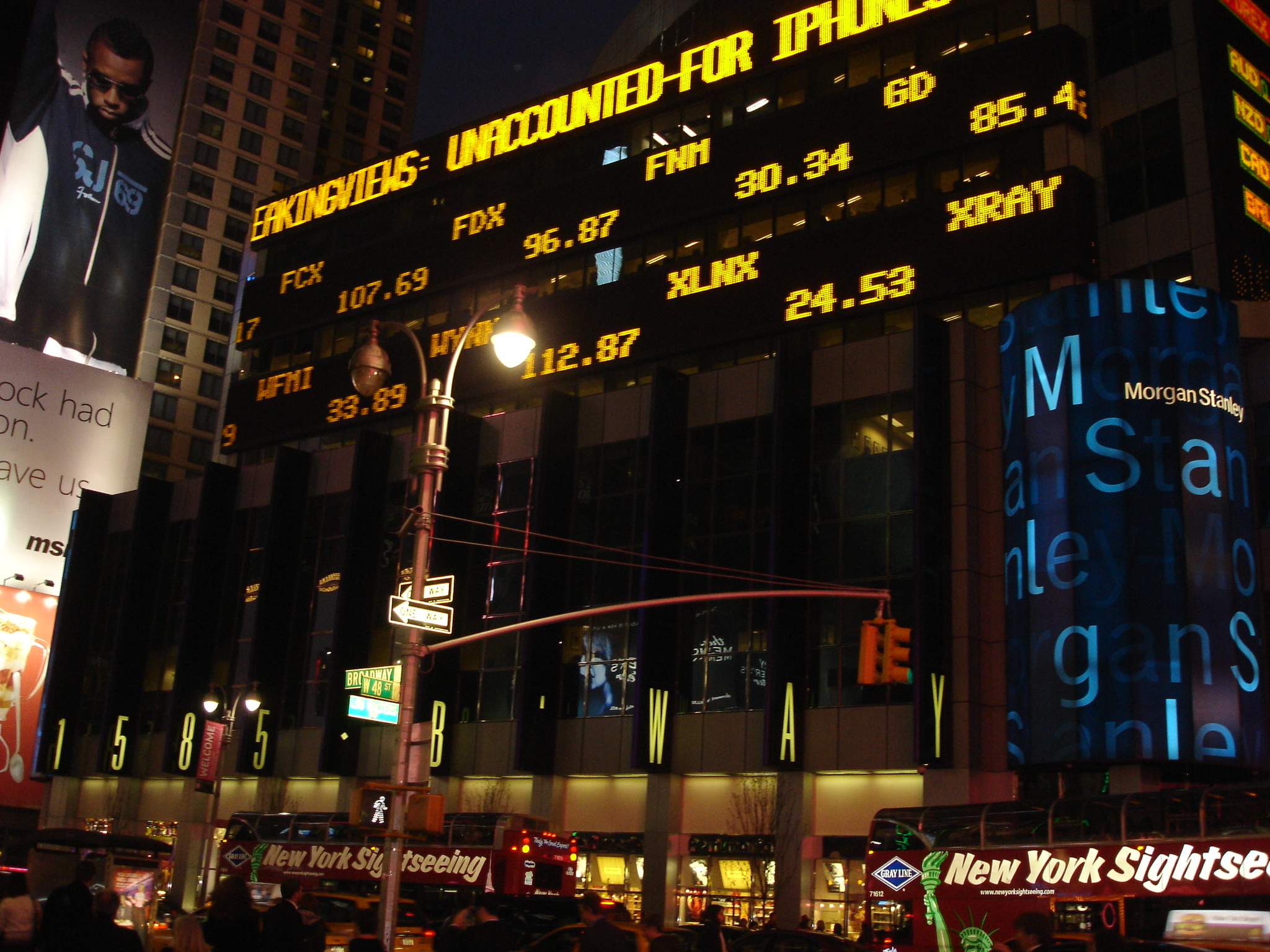 This photo is of Wikipedia Takes Manhattan location code 78, The Morgan Stanley Building.